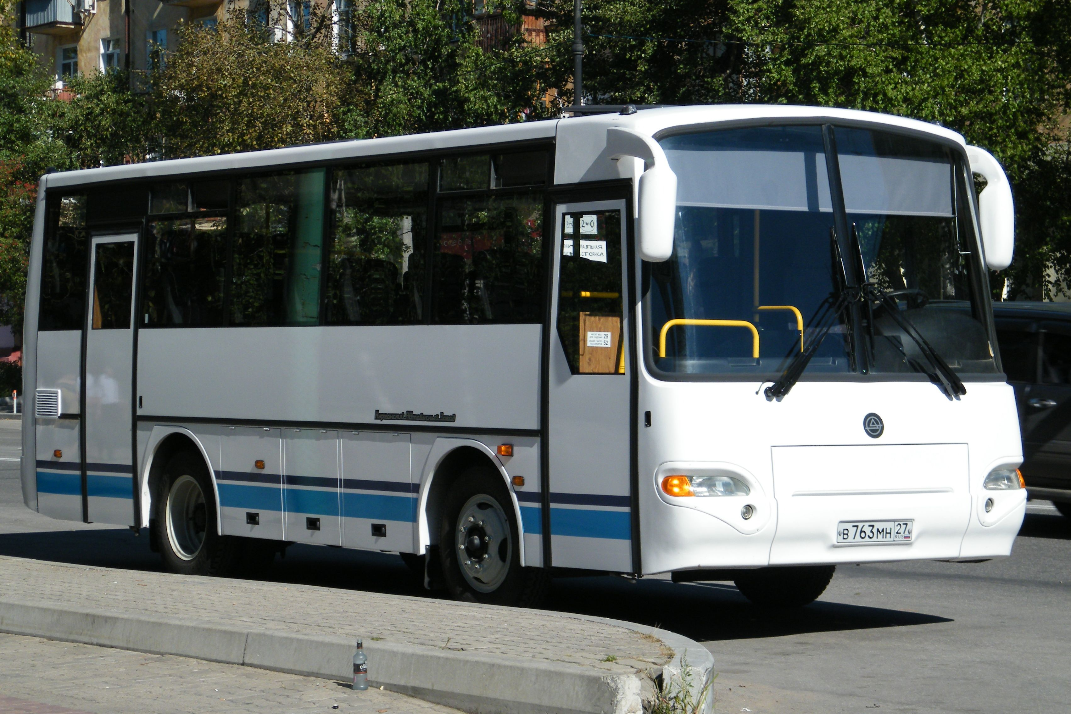 Автобус КАВЗ-4235